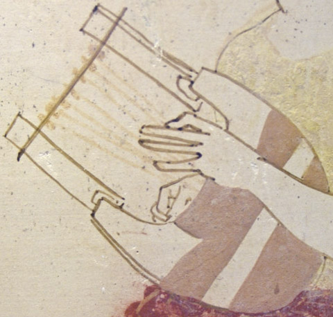 Muse playing the lyre. The rock on which she is seated bears the inscription ΗΛΙΚΟΝ / Hēlikon. Attic white-ground lekythos, 440–430 BC.